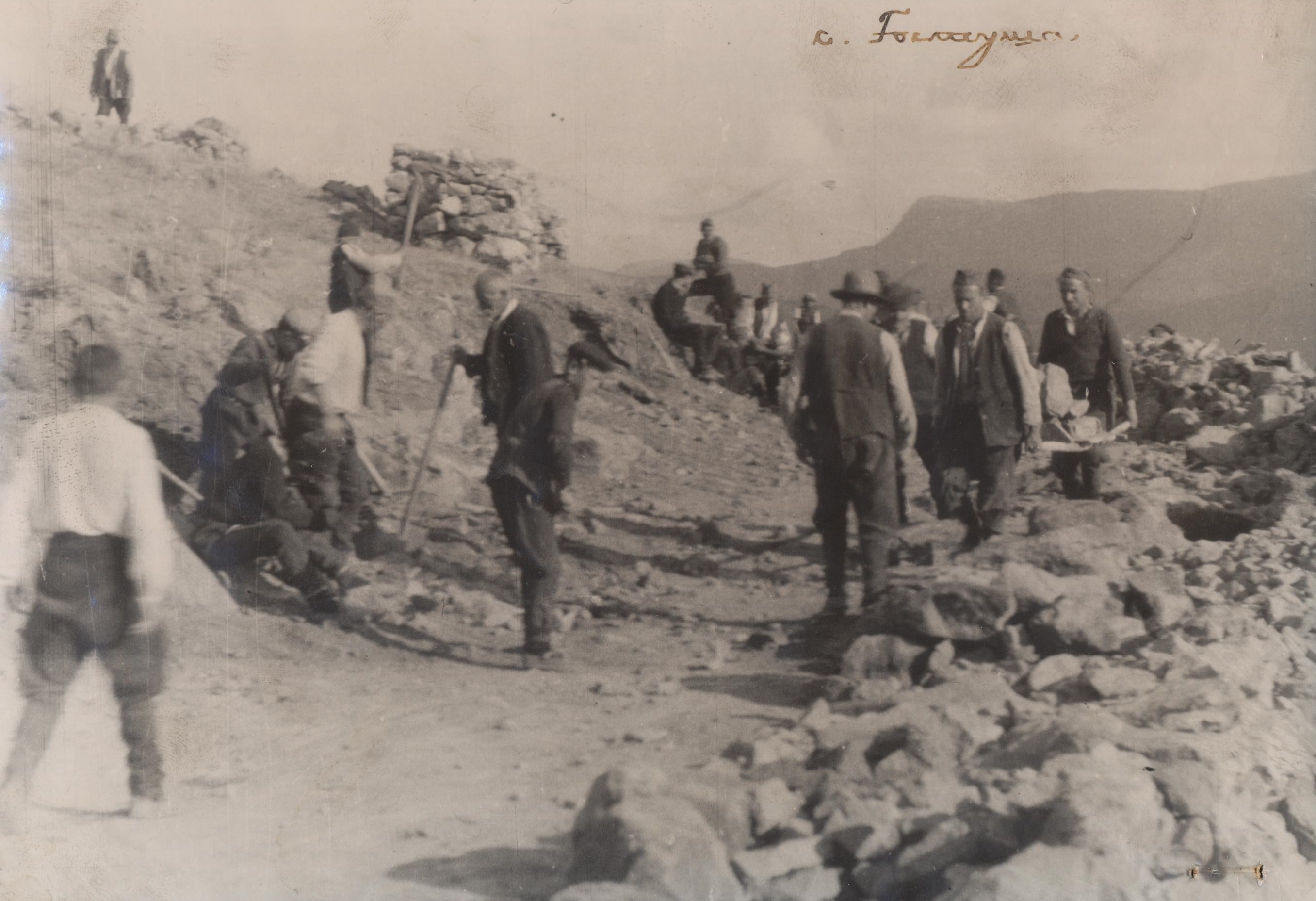 Construction of the road Pirot Velika Lukanja in 1956.